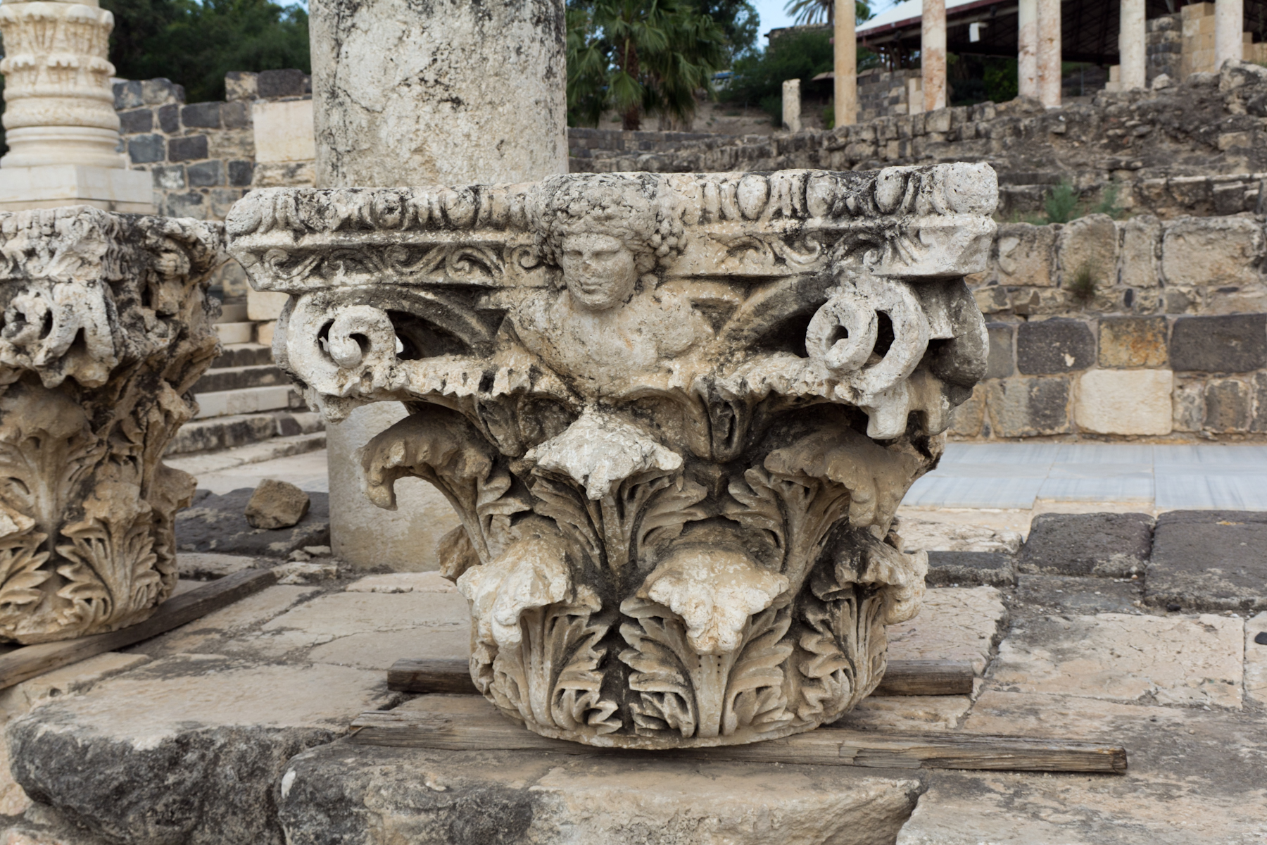 Corinthian capital on Palladius Street, Beit Shean/Scythopolis, Israel